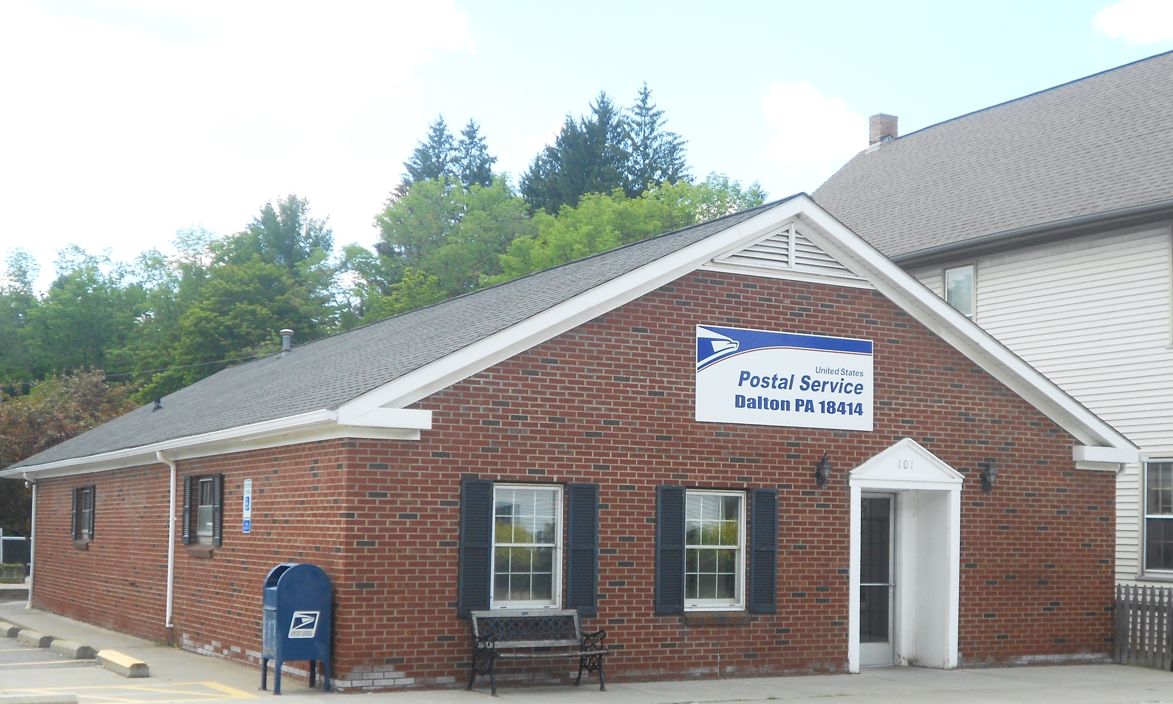 Postal Service office in Dalton, Pennsylvania zipcode 18414